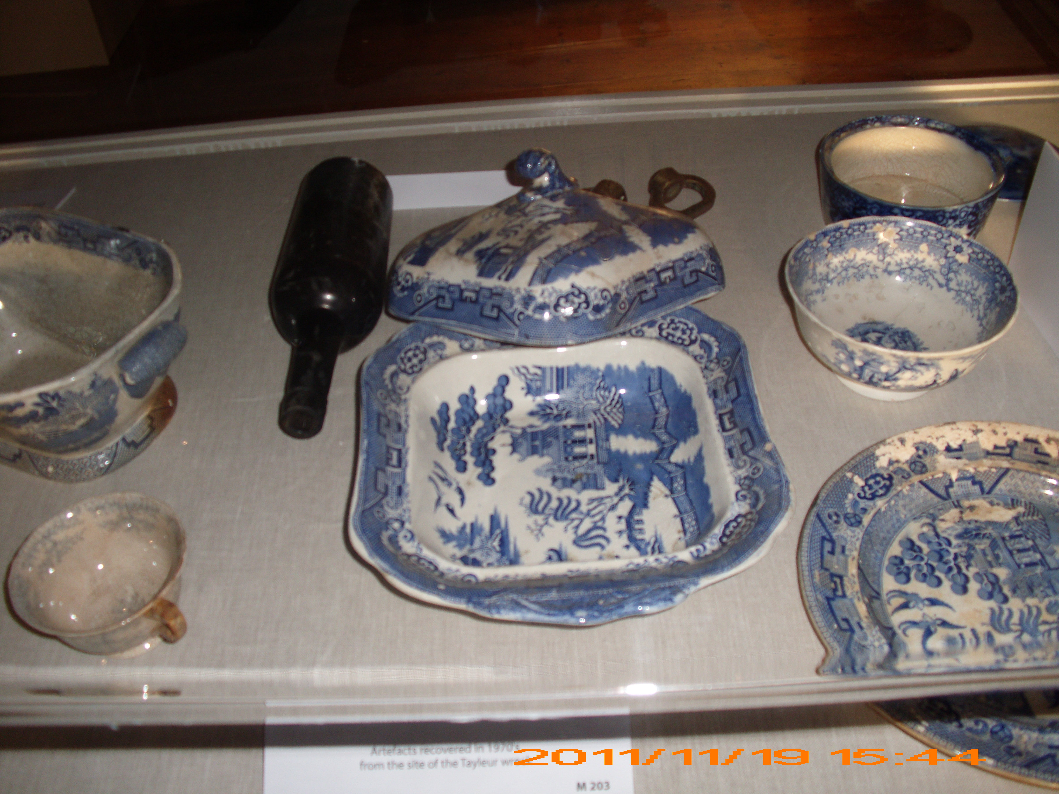 I took this photograph - with permission - of this display in the National Maritime Museum of Ireland in Dún Laoghaire